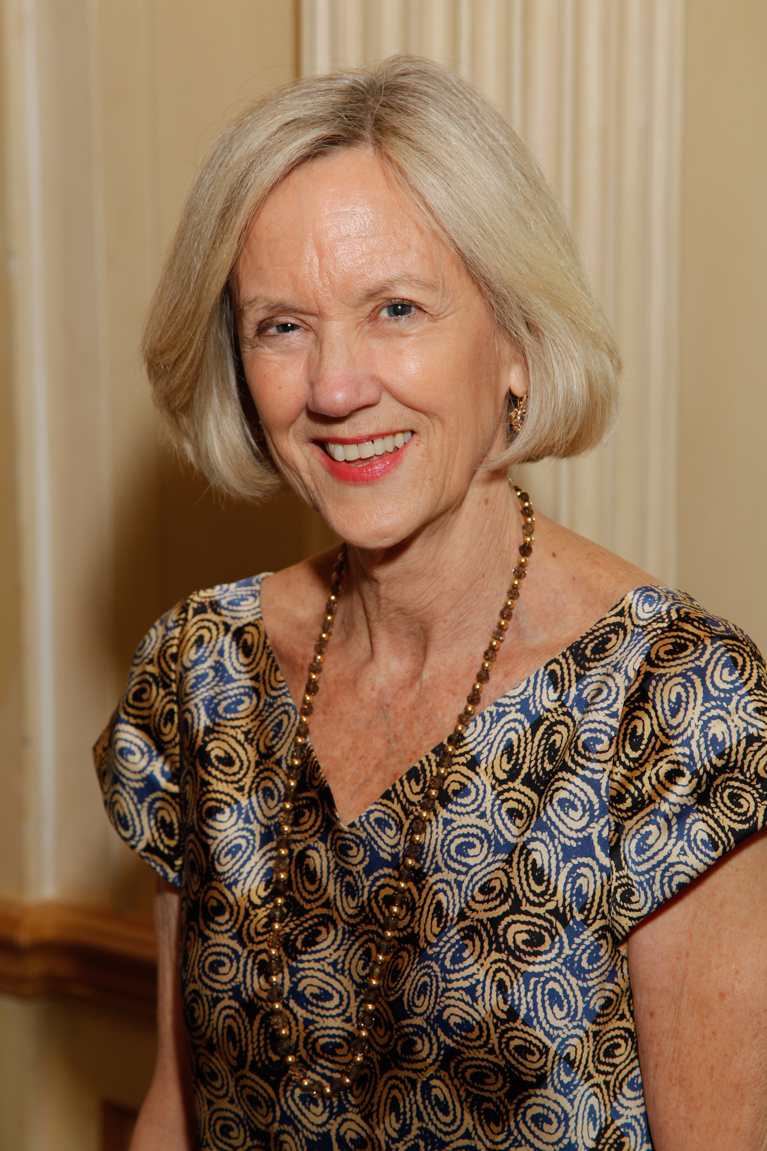 Nancy Duff Campbell at Women’s eNews’ 21 Leaders for the 21st Century for 2012. Photo credit: Lindsay Aikman/Michael Priest Photography